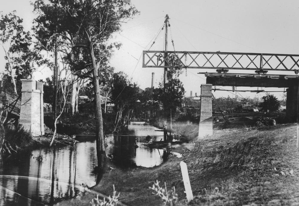 Construction of Return Creek Railway Bridge, Mount Garnet, Queensland, ca. 1901 Construction woker framed in the metalwork as it is placed along the bridge span.